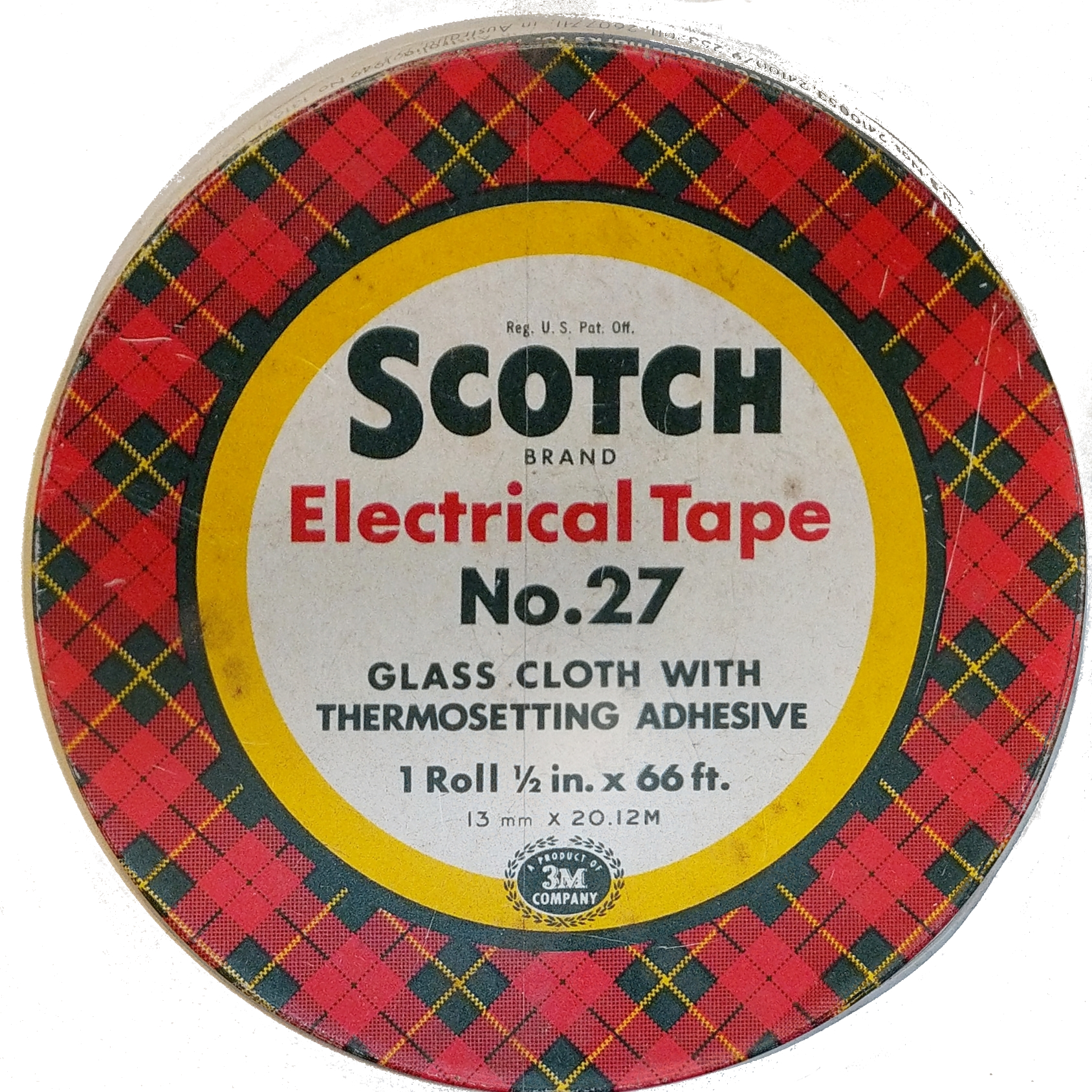 glass backed electrical tape. Made by 3M